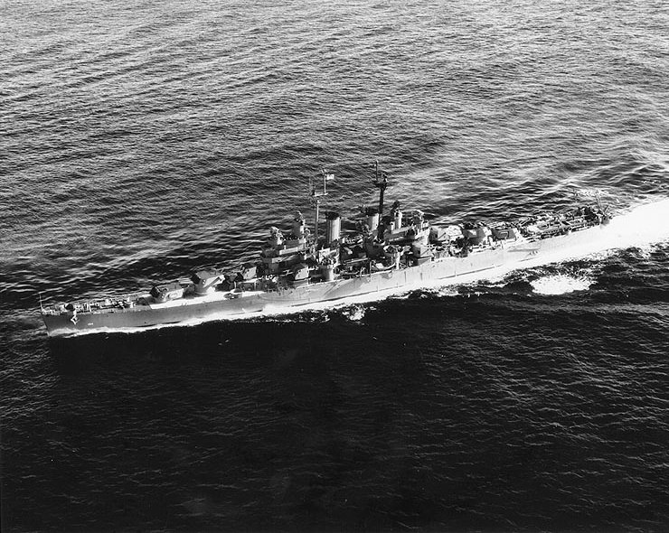 The U.S. Navy light cruiser USS Atlanta (CL-104) underway at sea, en route to Sydney, Australia, on 13 May 1947.